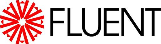 Logo of Ansys Fluent